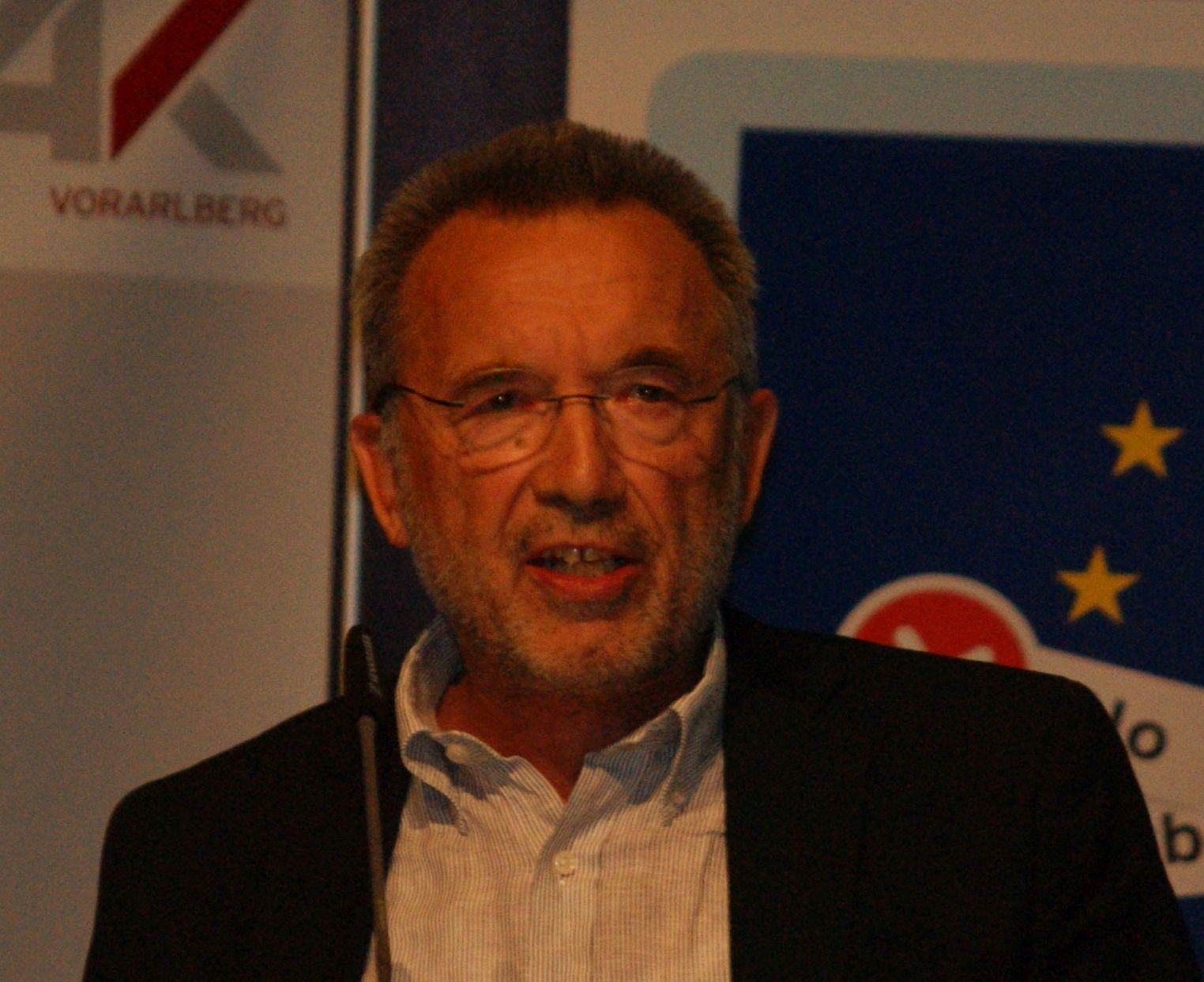 Photo on the occasion of the European Economic and Social Committee event in Feldkirch, Vorarlberg, Austria on 11 October 2018: "Economic progress and social stability as a means against EU skepticism?" Meinrad Pichler (born 1947) is a historian, autor and teacher. He studied history and German in Vienna. 2014 he won the Science Award of the Federal State of Vorarlberg.